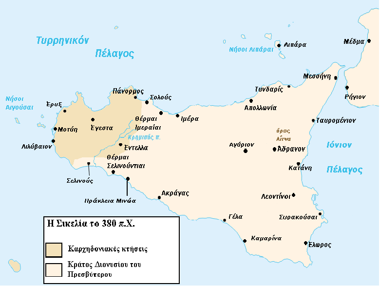 Map of Sicily